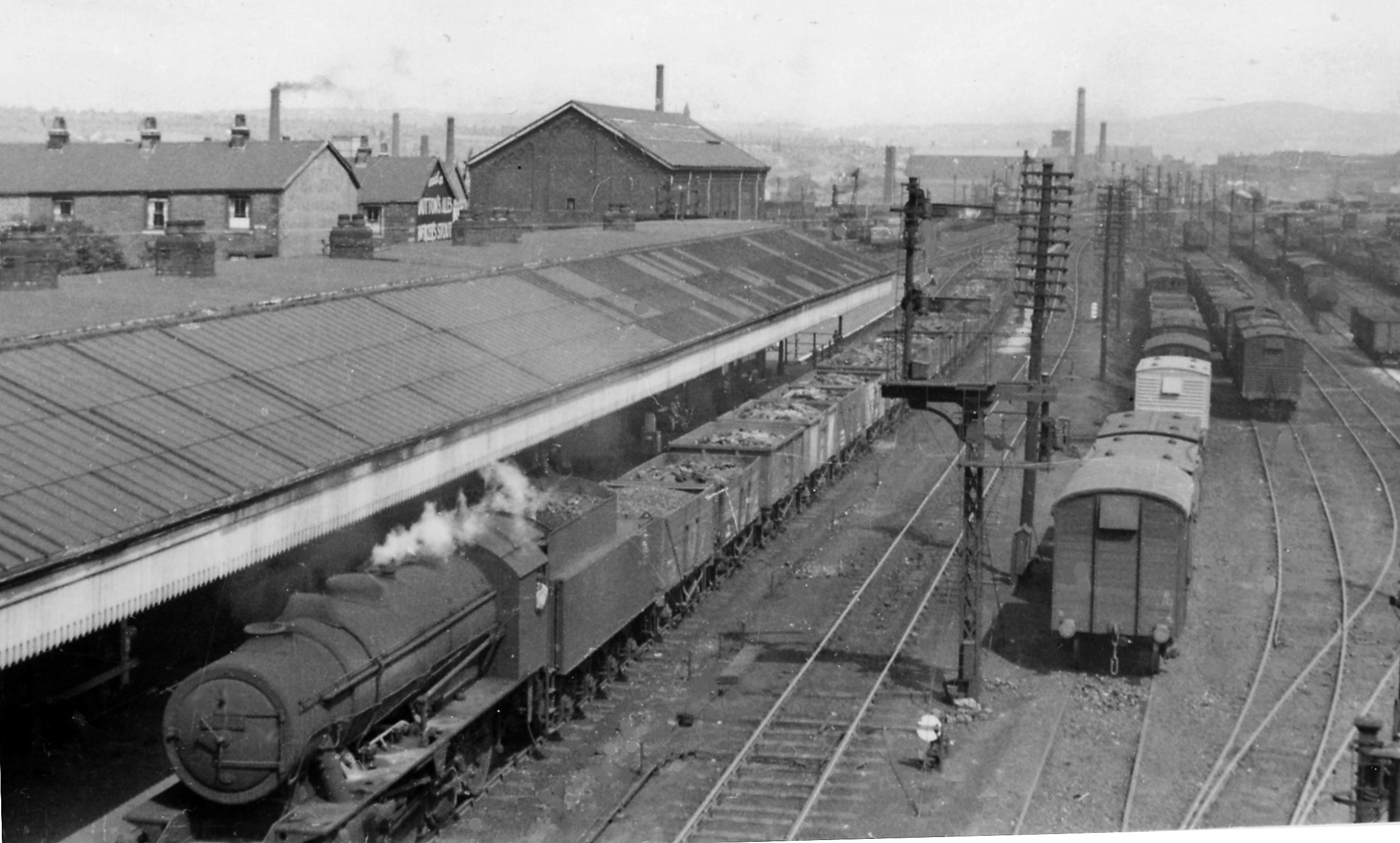 Rose Grove Station, with westbound coal train. View eastward, towards Burnley, Colne, Todmorden etc.: ex-L&Y (East Lancs. section). The train, no doubt from Yorkshire via Todmorden, is headed by ex-WD Austerity' 2-8-0 No. 90283. This engine was built as WD 7407 (later 77407) in 12/43, worked from Colwick (one of 450 loaned to the Railways - 350 to the LNER) before being sent over to the Continent in 12/44: it returned to England in 7/46, stored at Richborough until put to work on the GWR at Llanelly in 5/47; under BR it was numbered 90283 and allocated to the LMR at Rose Grove in 3/49 and survived untl 10/65.